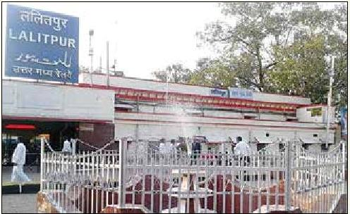 lalitpur